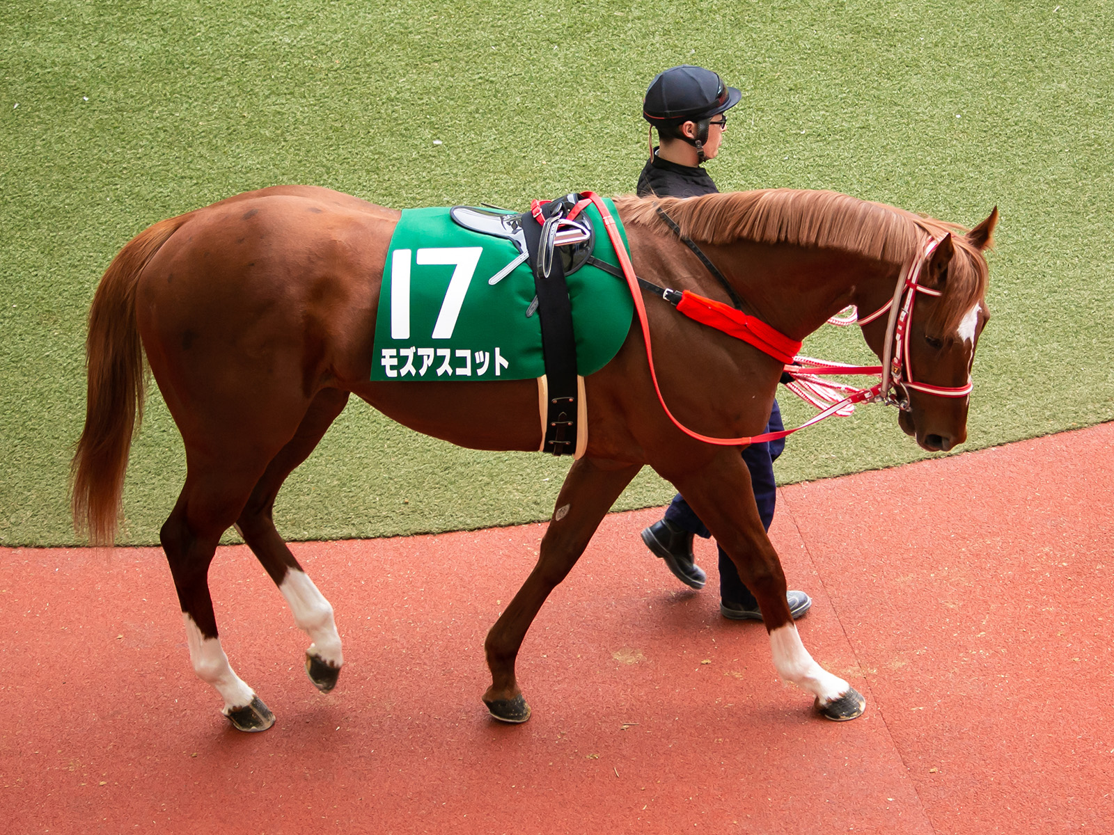 Mozu Ascot(USA), Racehorse of Japan.